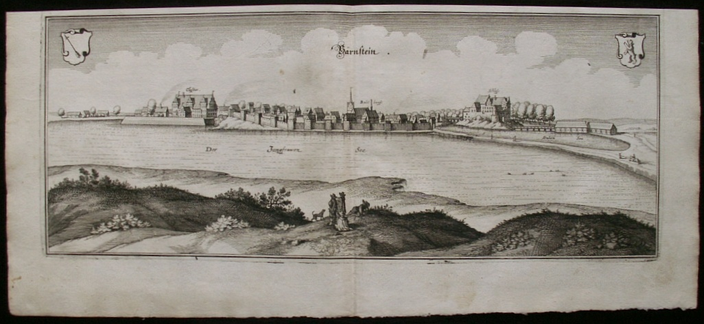 Pełczyce, (Bernstein) - Panorama miasta i okolic (Matthäus Merian. ok.1650 rok